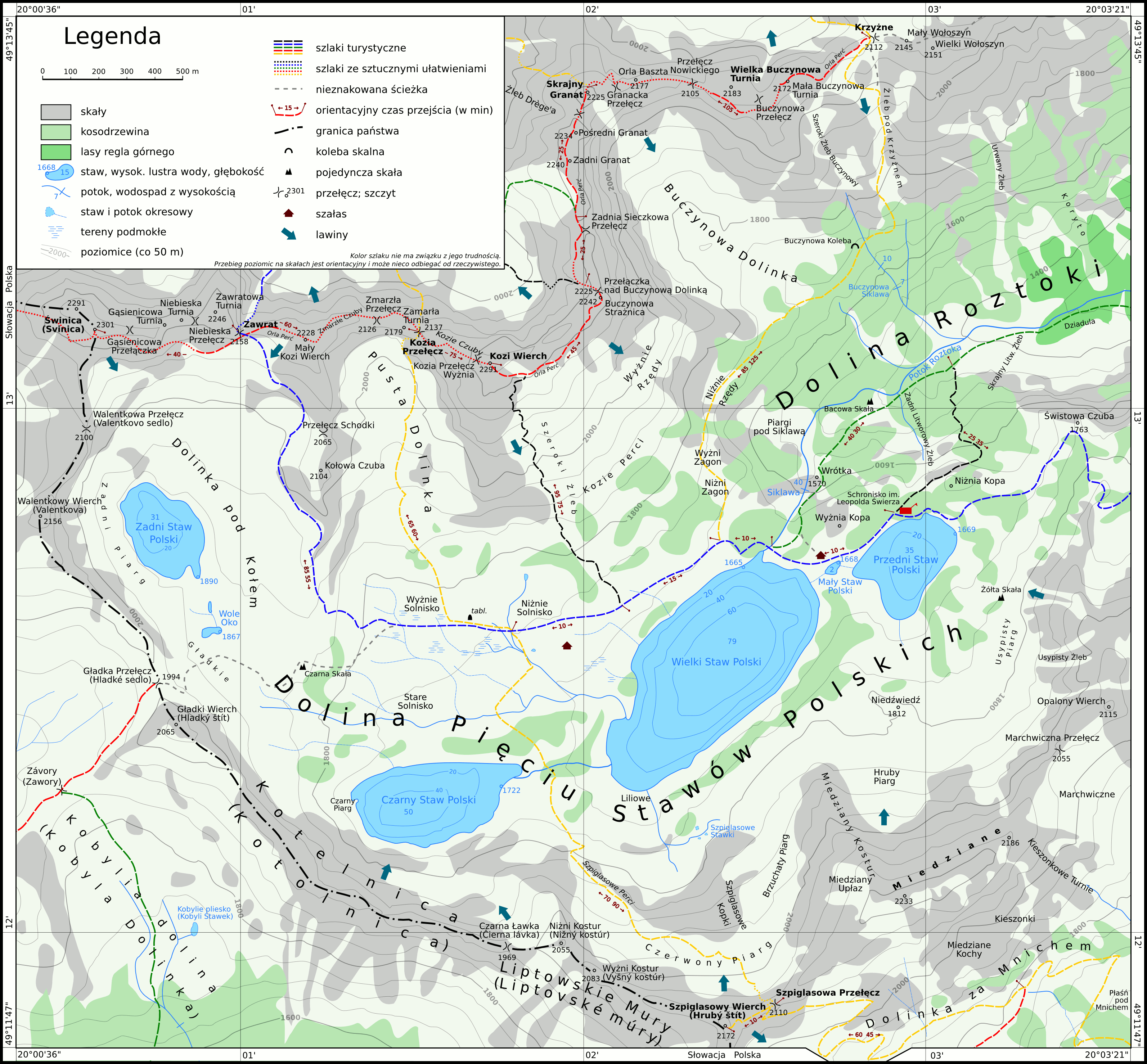 Map of Dolina Pięciu Stawów Polskich ("Valley of Five Polish Lakes"), Tatra National Park, Poland